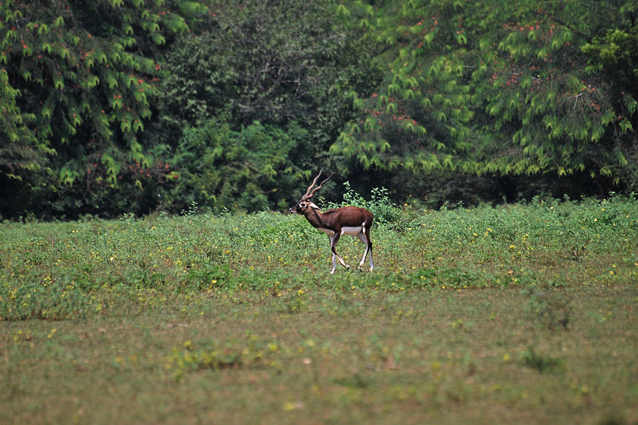 Blackbuck Antelope male from Guindy National park